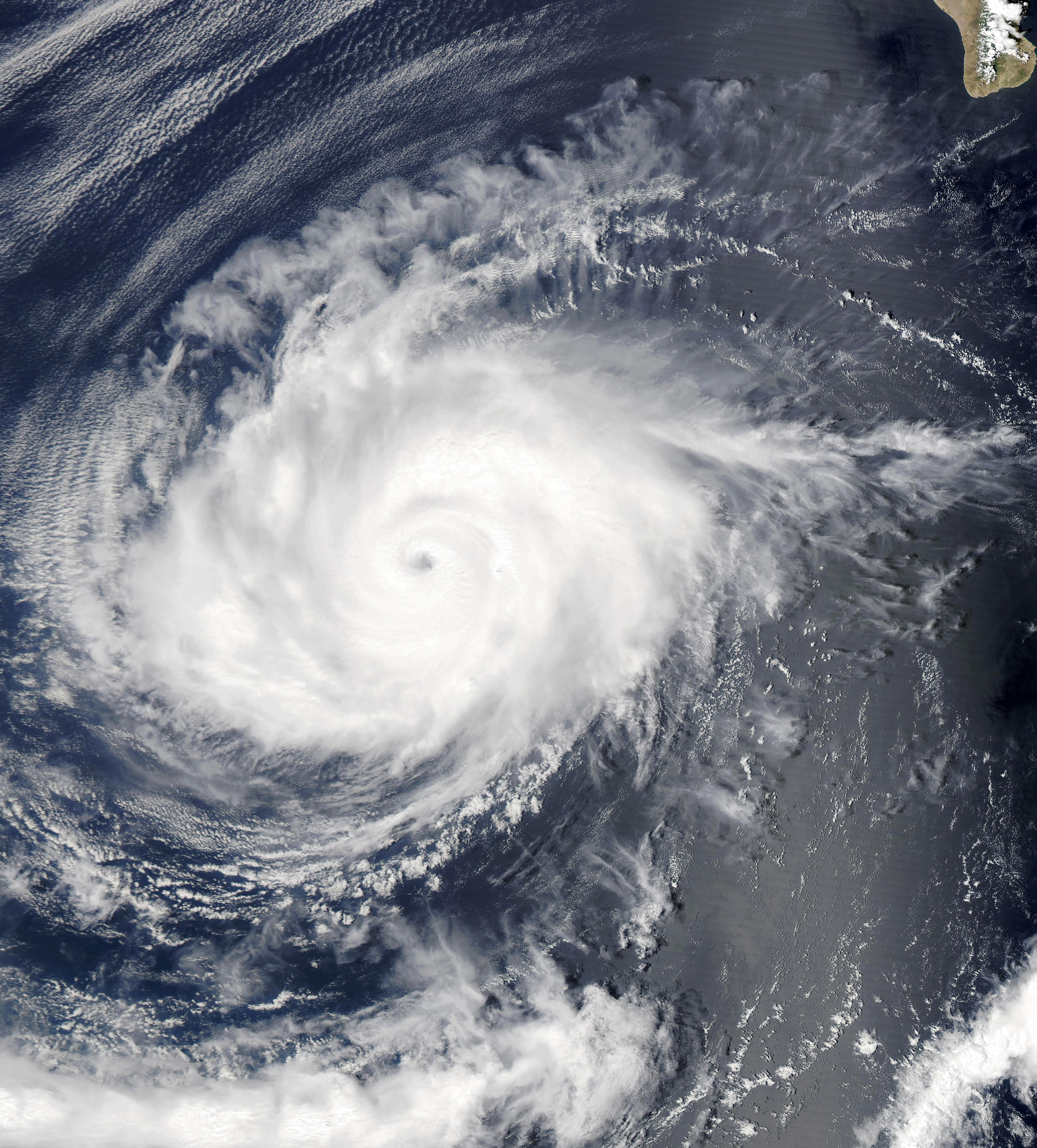 Hurricane Hilary on September 26, 2011. At the time of this picture, Hilary's winds rose to 135 mph with stronger gusts. This made the storm a minimal Category 4 hurricane.